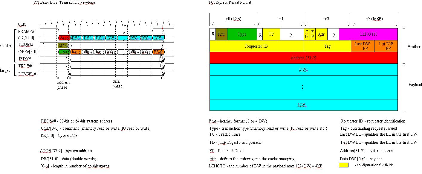 PCI-to-PCIe logical mapping